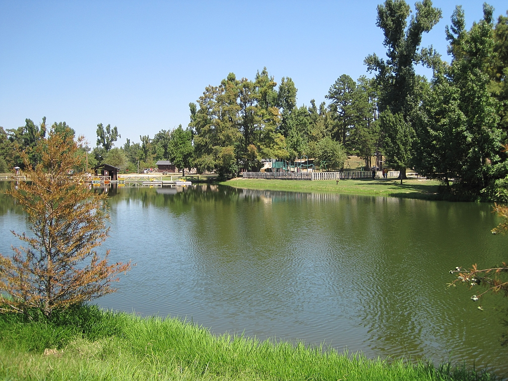 Lake Ponder Trail at Crowleys Ridge State Park in Paragould, Arkansas.